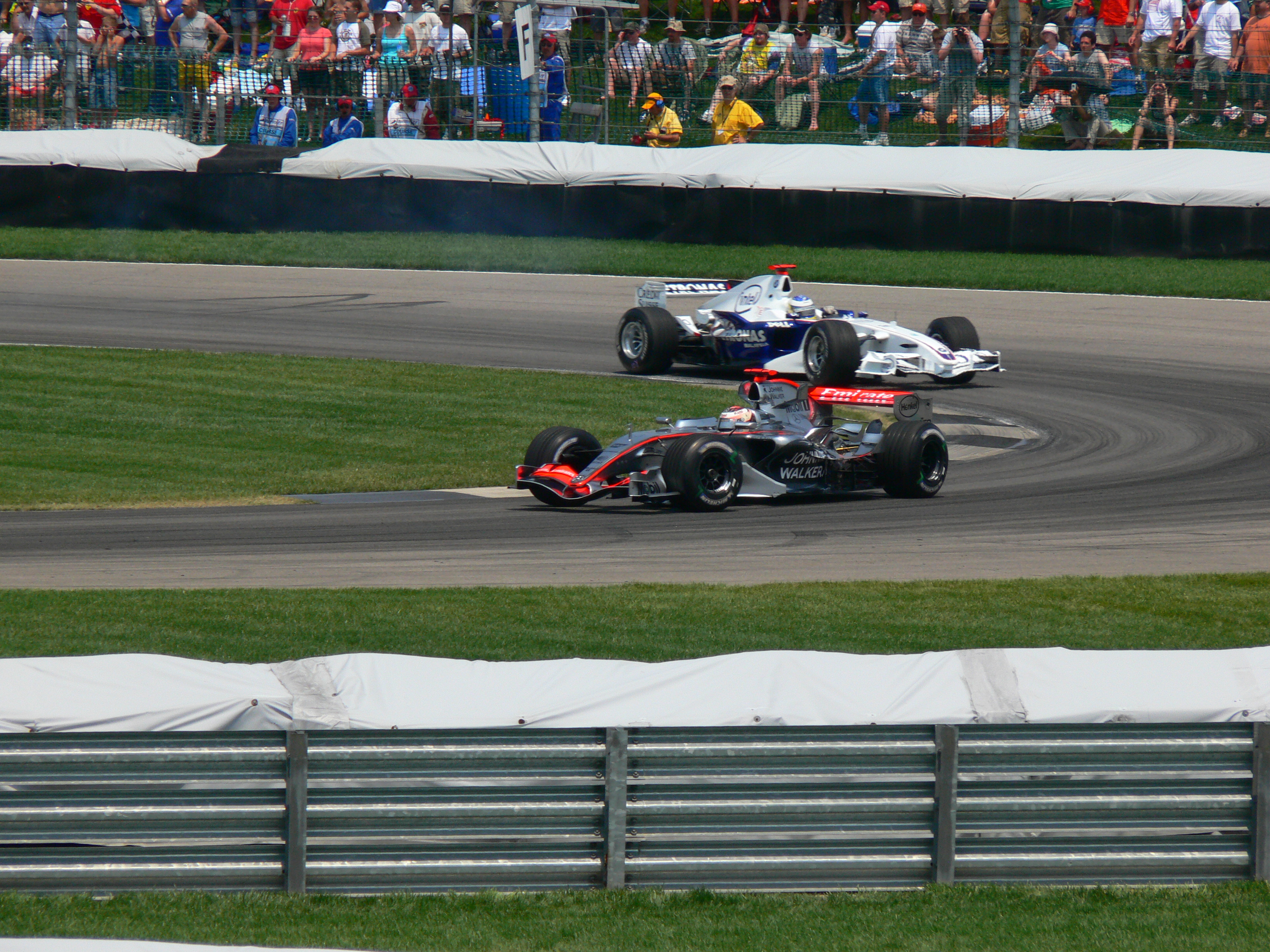 Kimi Räikkönen, driving his McLaren Mercedes, being followed by the BMW Sauber of Nick Heidfeld at the 2006 United States Grand Prix.